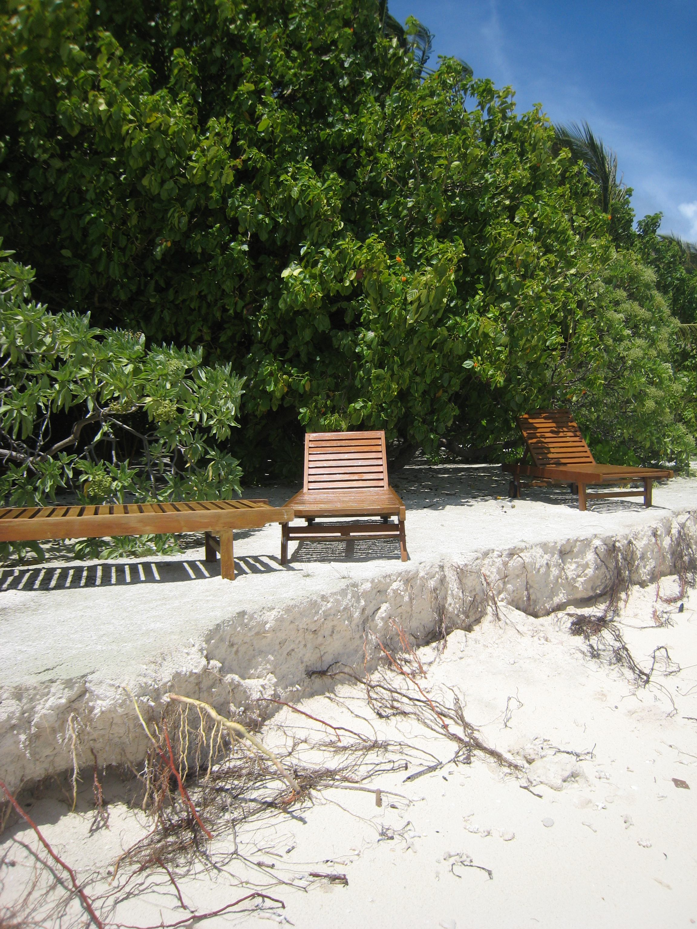 Erosion.